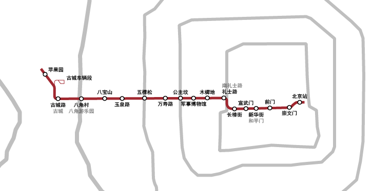 Map of Beijing Subway Phase 1. Drawn to the scale.